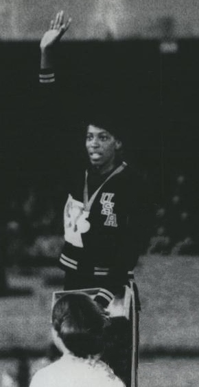 1968 Press Photo Madeline Manning Olympic gold Medalist. - RSH30645